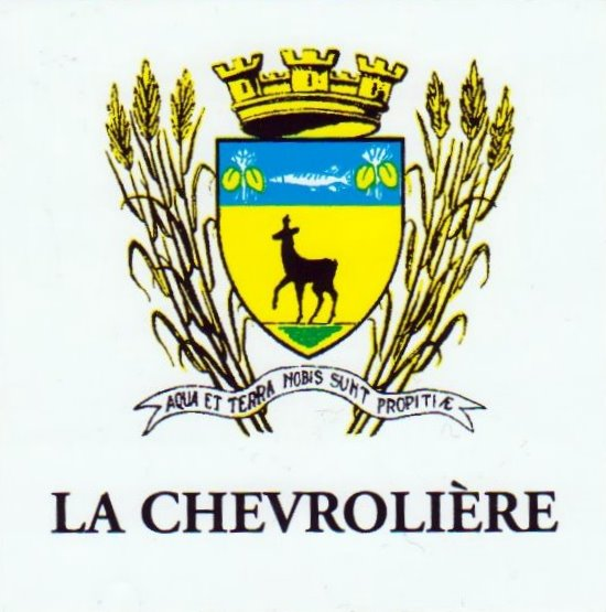 coat of arm of La Chevrolière, 44, france (2008)